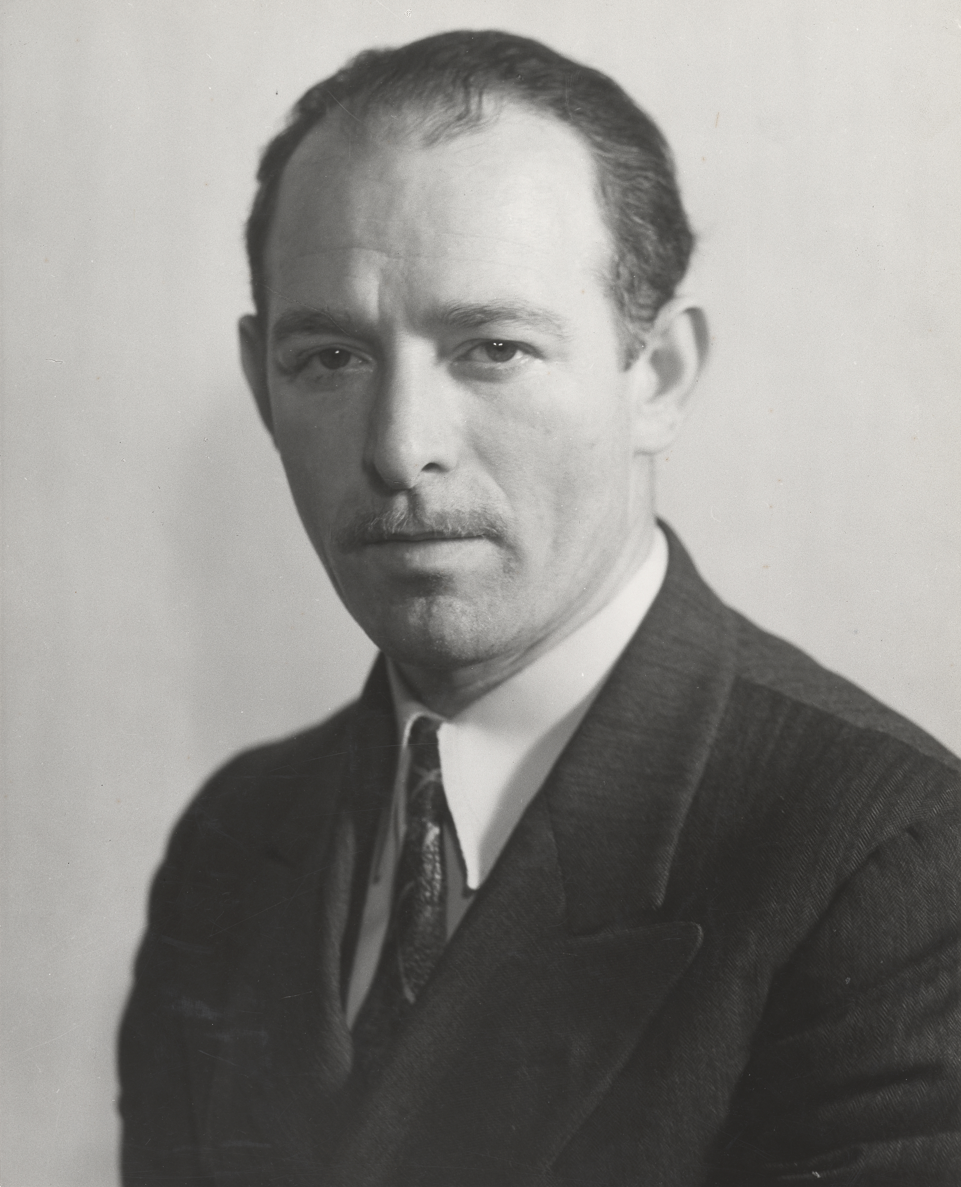 Identification on verso, left (handwritten and stamped): Artist: Louis Ferstadt Identification on verso, right (stamped and handwritten): Federal Art Project W.P.A.; Photographic Division; 137 East 37th St. New York City; Location: Mural Department; Date: 4/16/37; Negative No: P688; Photographer: Truehoff.